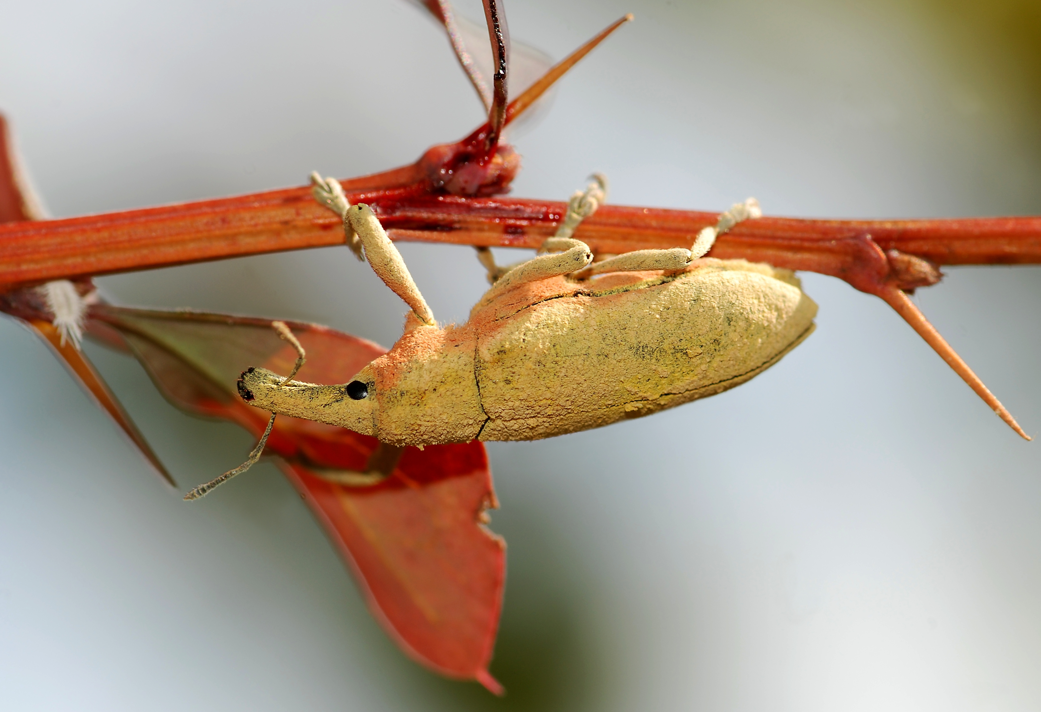 A weevil of the Curculionidae family (Lixus angustatus)